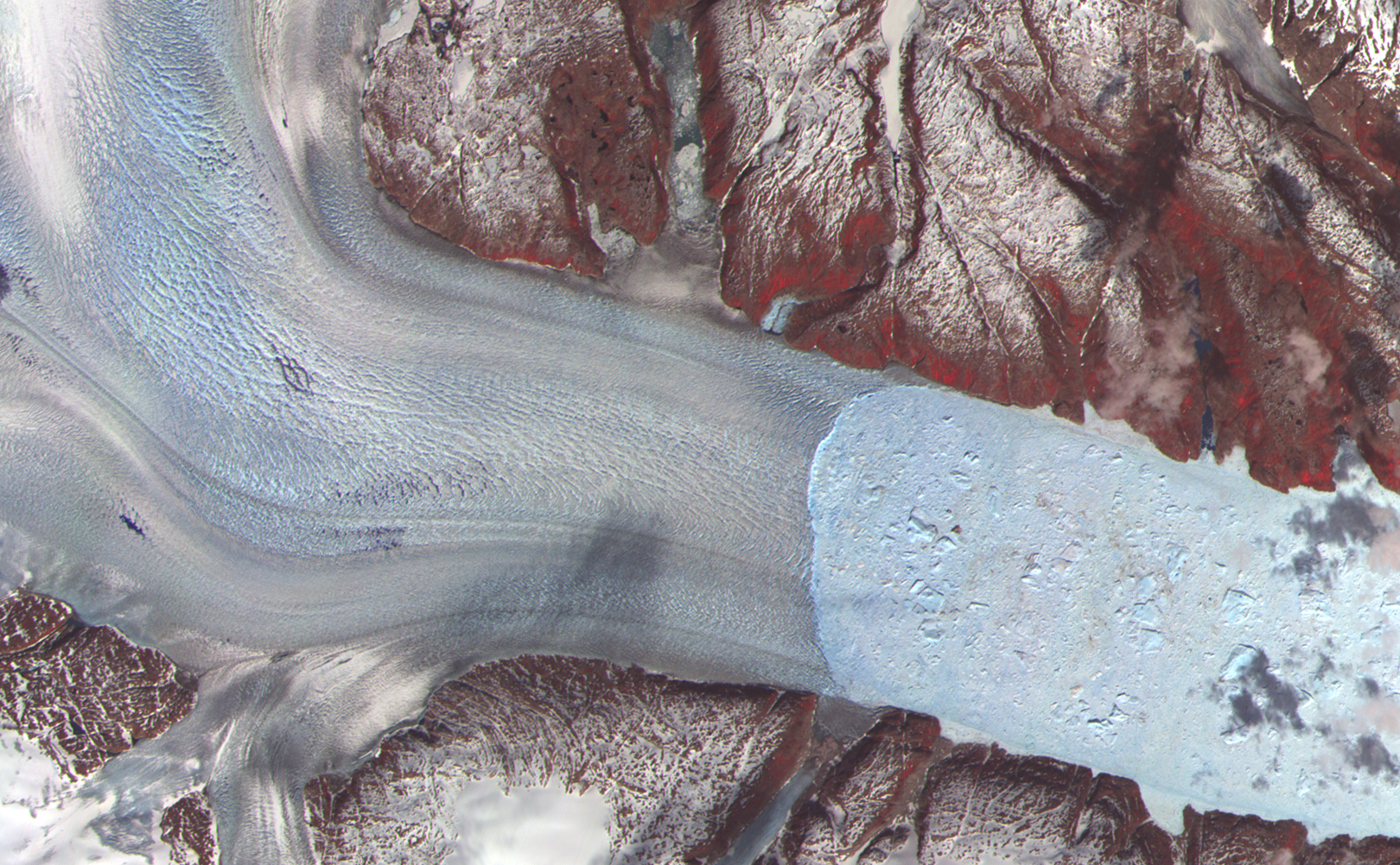 ASTER (Terra) image of Helheim Glacier in South East Greenland, taken on 7 July 2003. For further details see here.